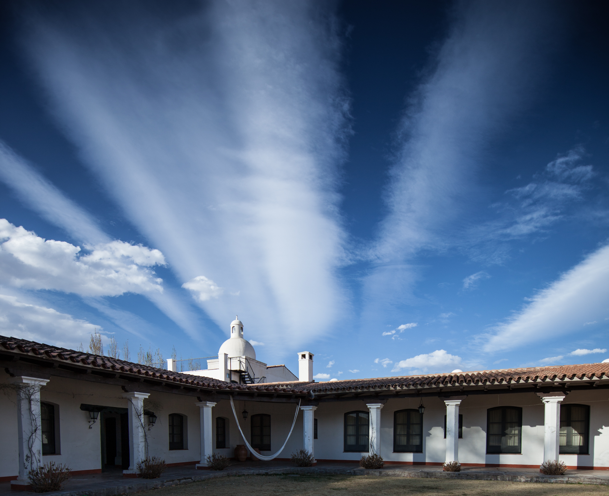 Patios de Cafayate is in a former neo-colonial mansion built in 1892. The hotel and surrounding vineyards are today owned by Bodega El Esteco (producer of premium Michel Torino and Don David wines).